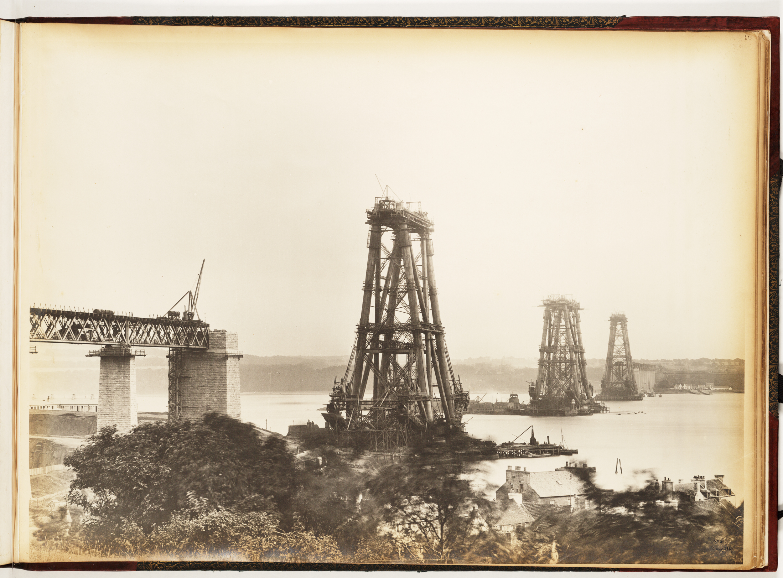 Photograph of the Forth Bridge under construction, general view from North Queensferry hills. A view depicting the three cantilevers at very nearly their full height. The rising ground some 100 feet above sea level at point from which it was taken being well adapted for securing a good position, the artistic qualities and perspective of this picture leave nothing to be desired. The foreground chiefly composed of foliage, is somewhat hazy, a result due to an almost imperceptible motion imparted to it by the wind, though, so far from detracting from it, this feature adds to the general effect of one of the most successful pictures yet secured. To the west of Inchgarvie may be seen what appear like a few sticks floating in the water, which prove, however, under close inspection to be the most formidable Oregon spars, no less than 100 feet in length and 3 feet in diameter, strapped together with iron band in bundles of three each to form a protection to the piers on Inchgarvie. As they were exceptionally fine spars, their combined weight was considerable, and offered much resistance to the rough water and strong down tides, and therefore necessitated moorings of exceptional strength and character laid down in over 200 feet of water. The essential part of these moorings was a block of concrete weighing some 30 tons, surrounded by an iron frame, the ribs of which projected and were turned at an angle, thus forming a species of grapnel. This is the fellow-picture to No. 36. Transcription from: Philip Phillips, 'The Forth Railway Bridge', Edinburgh, 1890.